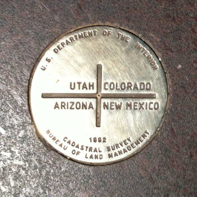 Metallic plate marking the "four corners" spot where the boundaries of the U.S. states of Colorado, New Mexico, Arizona, and Utah meet.